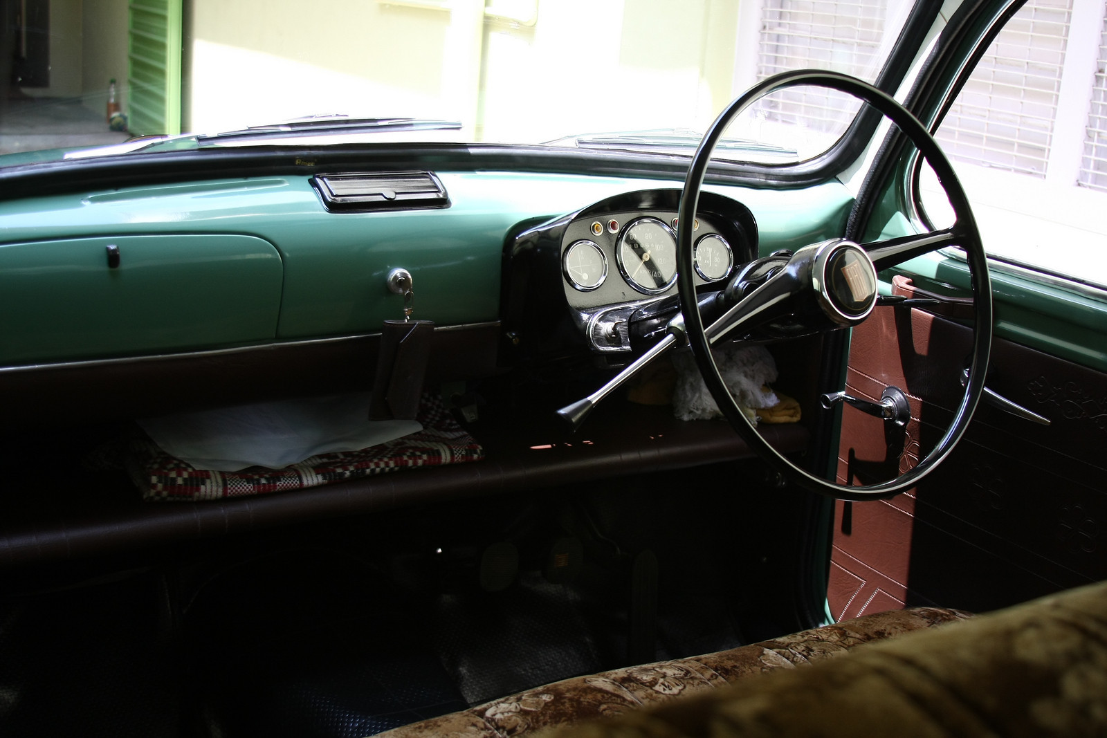 Interior picture of a Fiat 1100 in excellent condition. The car is in Mysore, India.